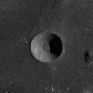 Il'in crater, on the far side of the moon. Mosaic of LRO WAC images.